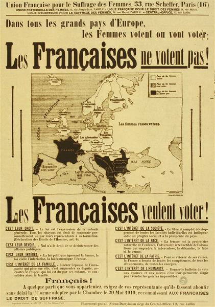 French Pro-women's suffrage poster from 1934. By the time France granted the vote to women in 1944, it had been for several years the only Western country that did not at least allow women's suffrage for municipal elections. Since the first bill to allow women's suffrage at municipal elections had been presented to Parliament in 1919, the French Senate had rejected women's suffrage at the municipal level six times. Poster issue by the Union française pour le suffrage des femmes.